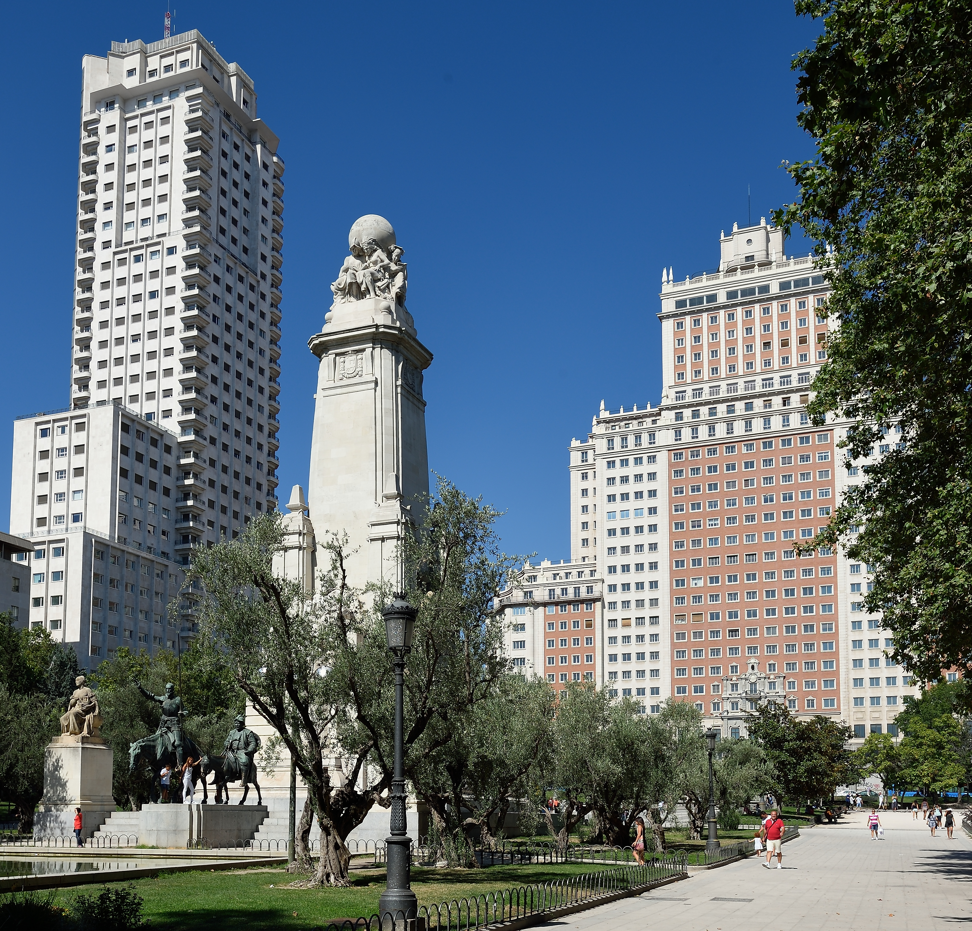 From left to right: the thirty-four story Torre Madrid, the Cervantes monument and the Edificio España, as photographed from the southwest side of the plaza. Expect to find hordes of camera wielders in this area, snapshotting friends and family in front of the Don Quixote and Sancho Panza statues. Concealed behind the boughs of an olive tree: a regal, remote, seated Miguel de Cervantes, Don Quixote's creator. A Spanish prof recently dumped cold water on my hope of reading Cervantes in the original. Seventeenth century espanol t'ain't for greenhorns like me. I can count myself fortunate to be able to understand some articles in El País and El Mundo.